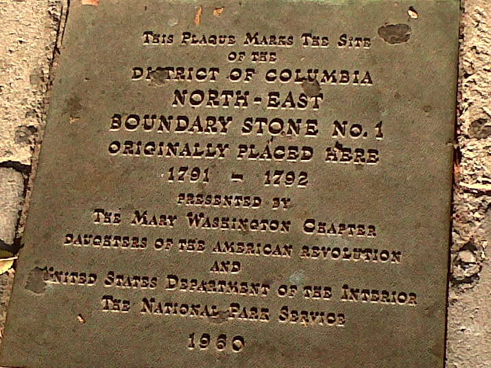 NE Boundary Stone 1 Plaque in Washington, DC